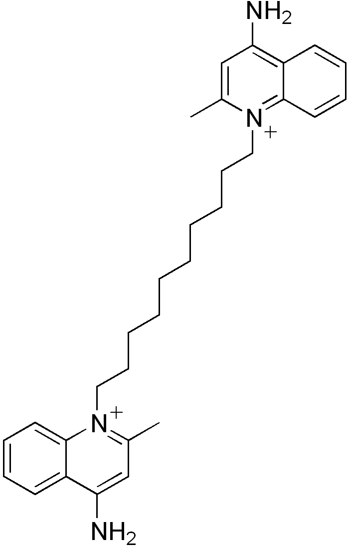 Chemical structure of Dequalinium